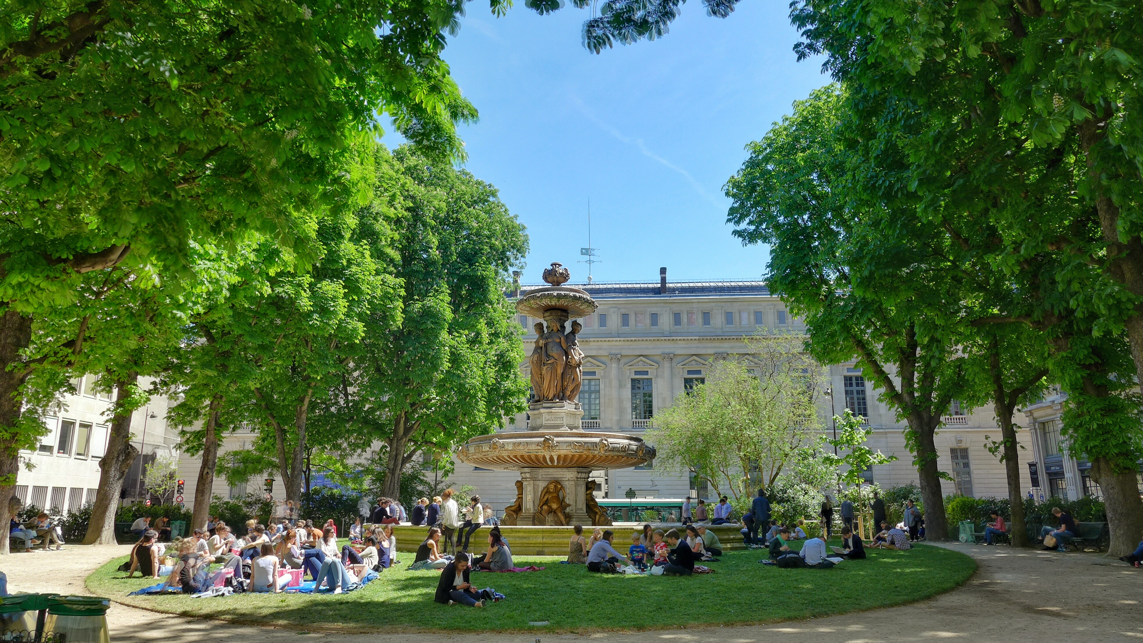 Square Louvois in the second district of Paris — and the fontaine Louvois in its center — on May 23, as seen from the Western entrance on Lulli street.